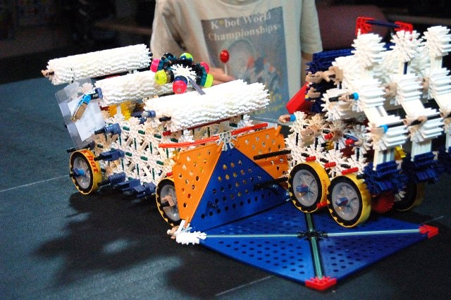 Own photograph, taken July 2006. Source